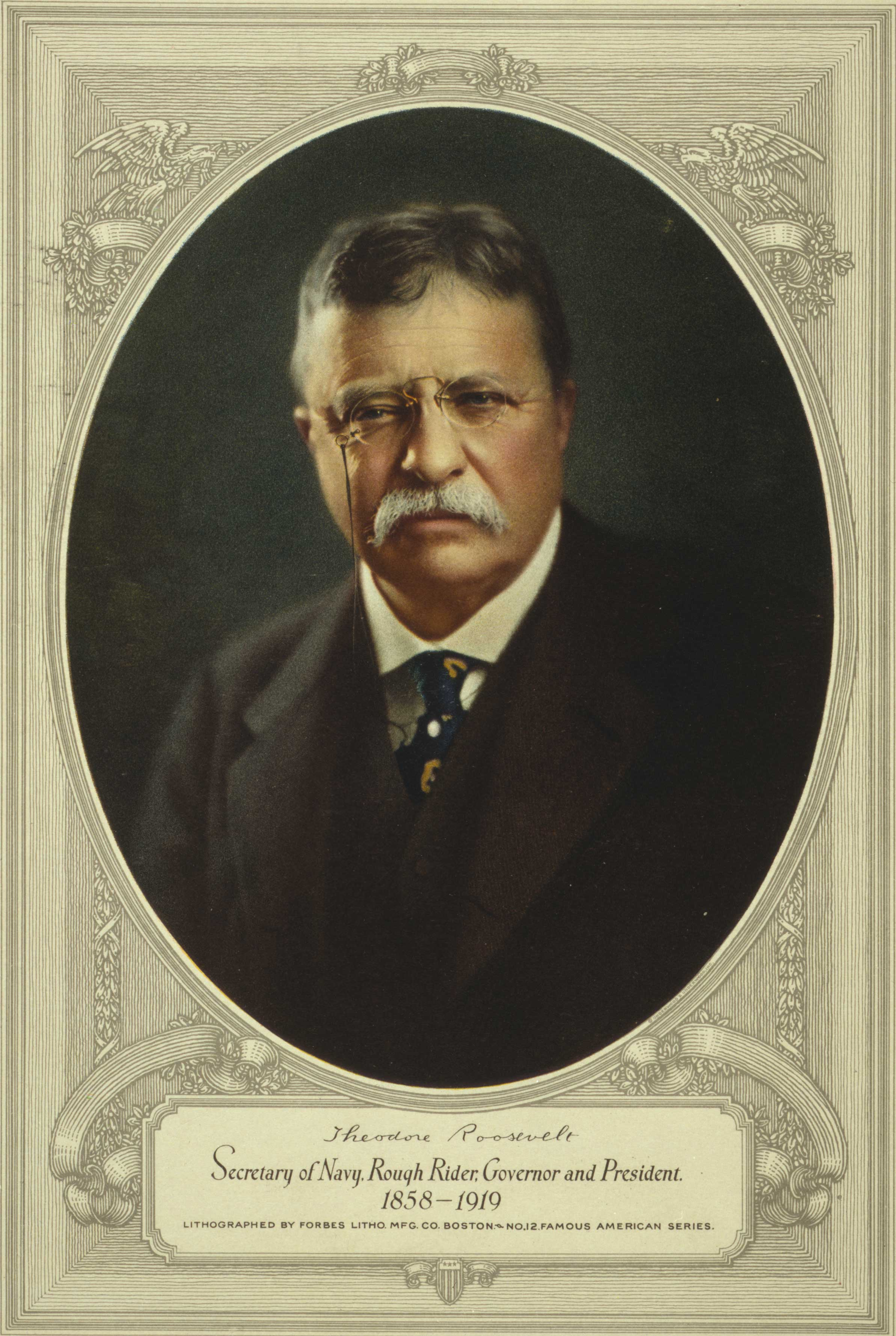 Theodore Roosevelt, President of the United States of America.